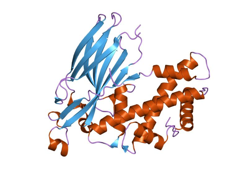 Cartoon representation of the molecular structure of protein registered with 2io5 code.